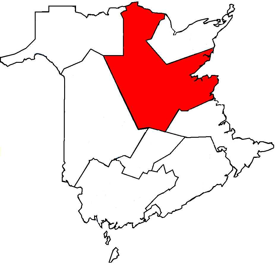 Map of the Miramichi electoral district. Based on Earl Andrew's maps, created by SimonP.